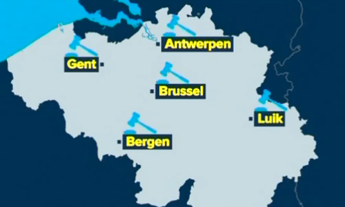 strafuitvoeringsrechtbanken